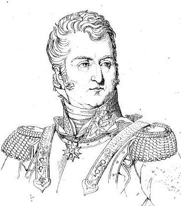 Chouard.